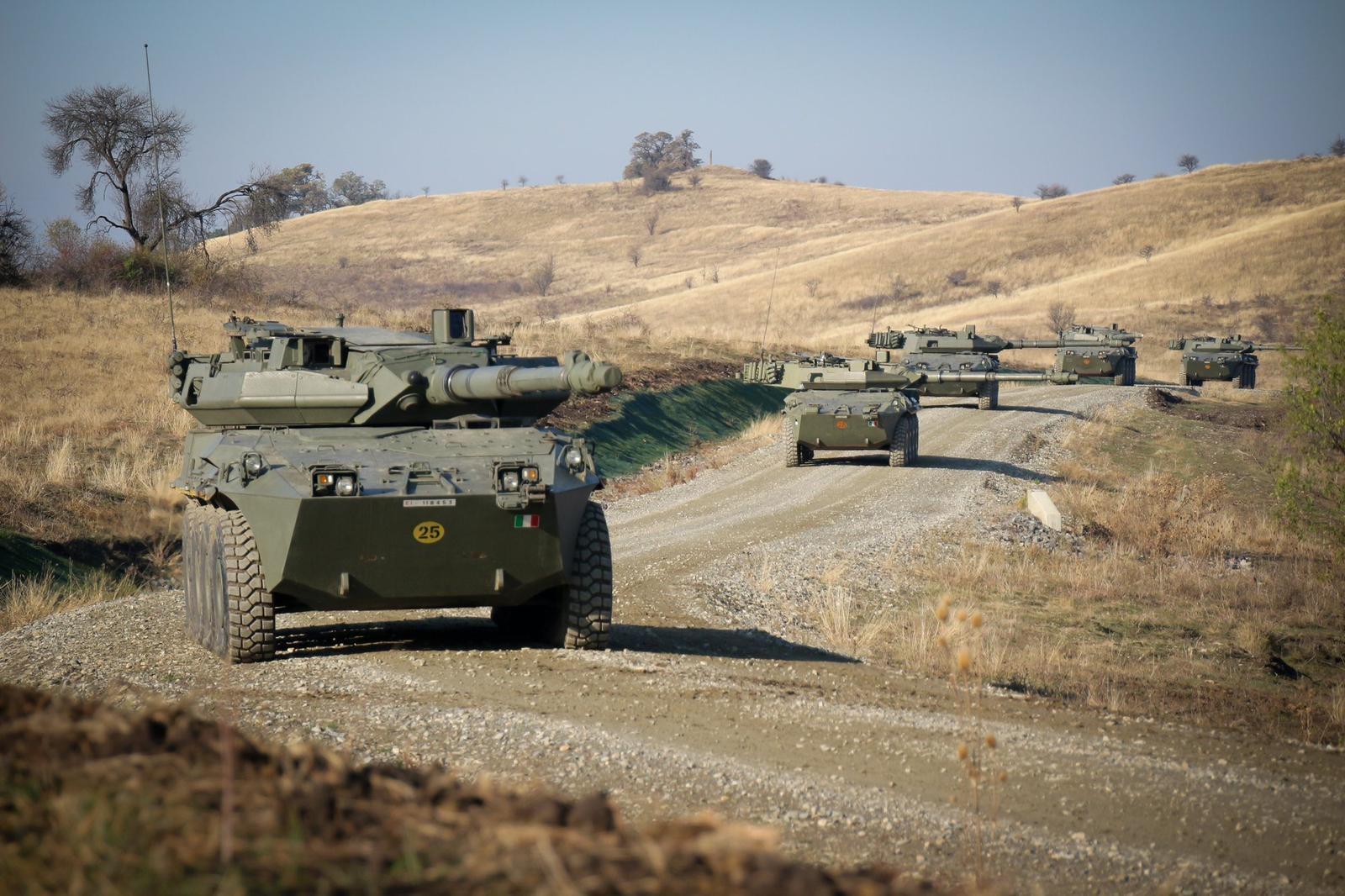 An Italian Army Regiment "Nizza Cavalleria" (1st) Centauro Tank Destroyer column in Cincu, Romania during exercise Scorpion Legacy 2019